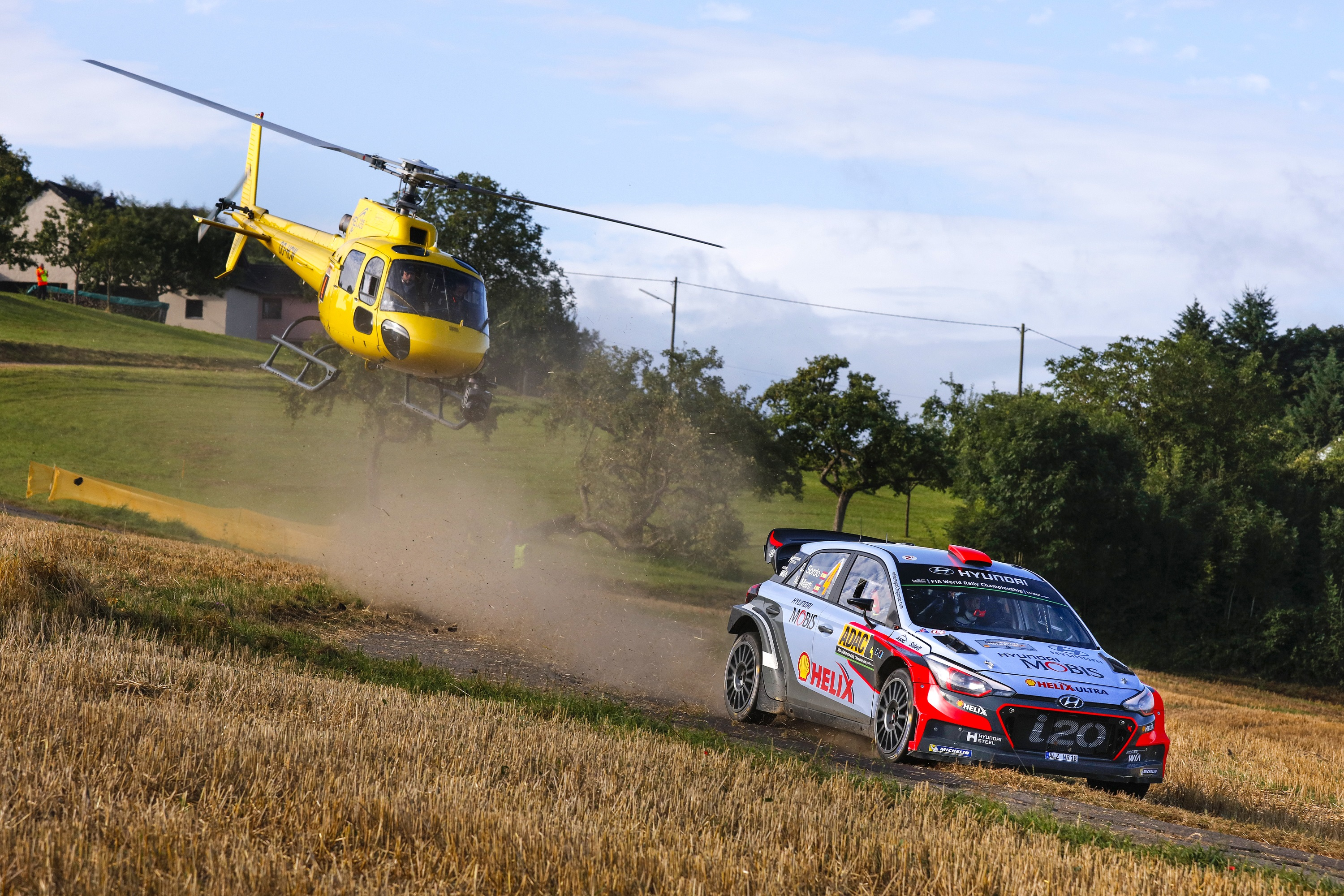 Dani Sordo and co-driver Marc Martí in their Hyundai i20 WRC, followed by a Eurocopter AS 350 at the 2016 Rally Germany, Round 9 of the 2016 World Rally Championship.